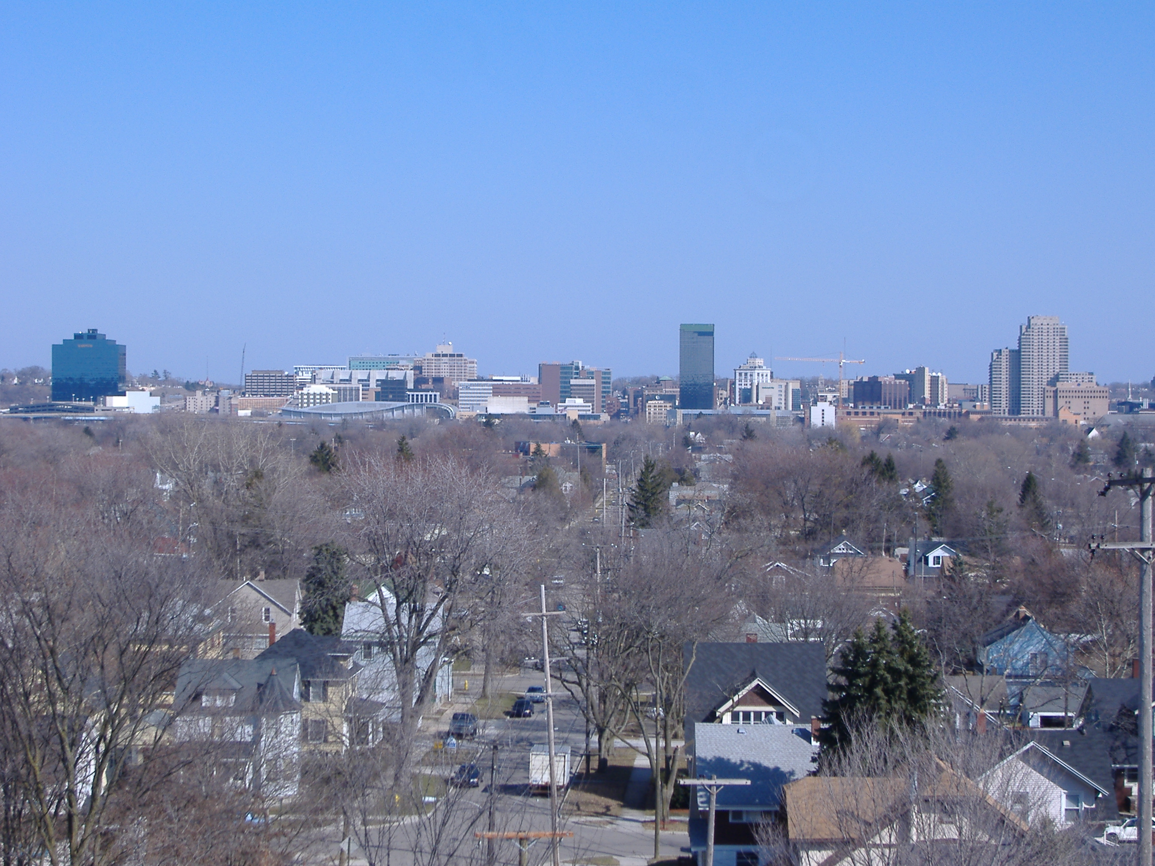 The skyline of Grand Rapids, Michigan